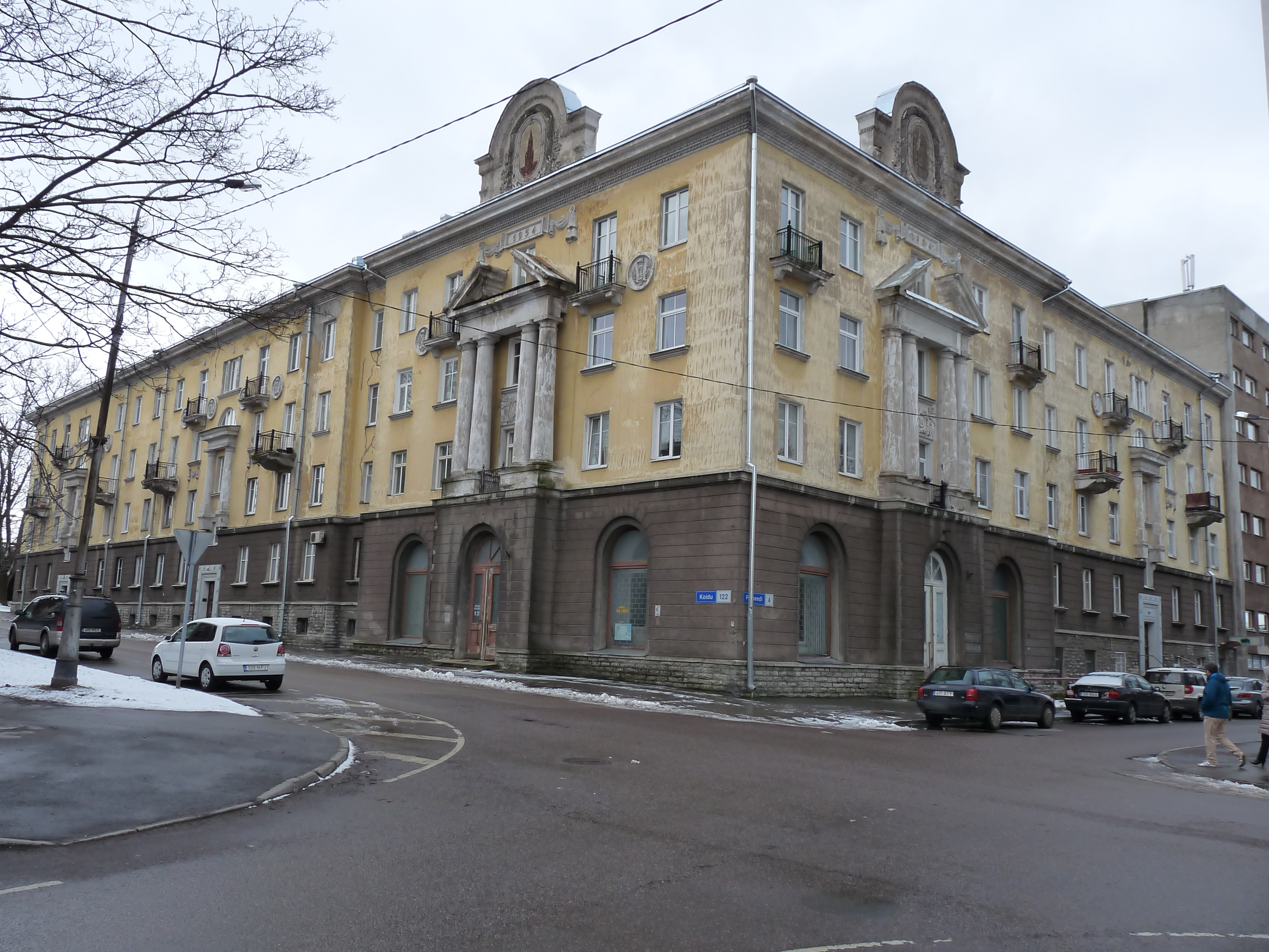 Stalin-era apartment building in Tallinn, Estonia; Koidu 122/Planeedi 4 (1954)